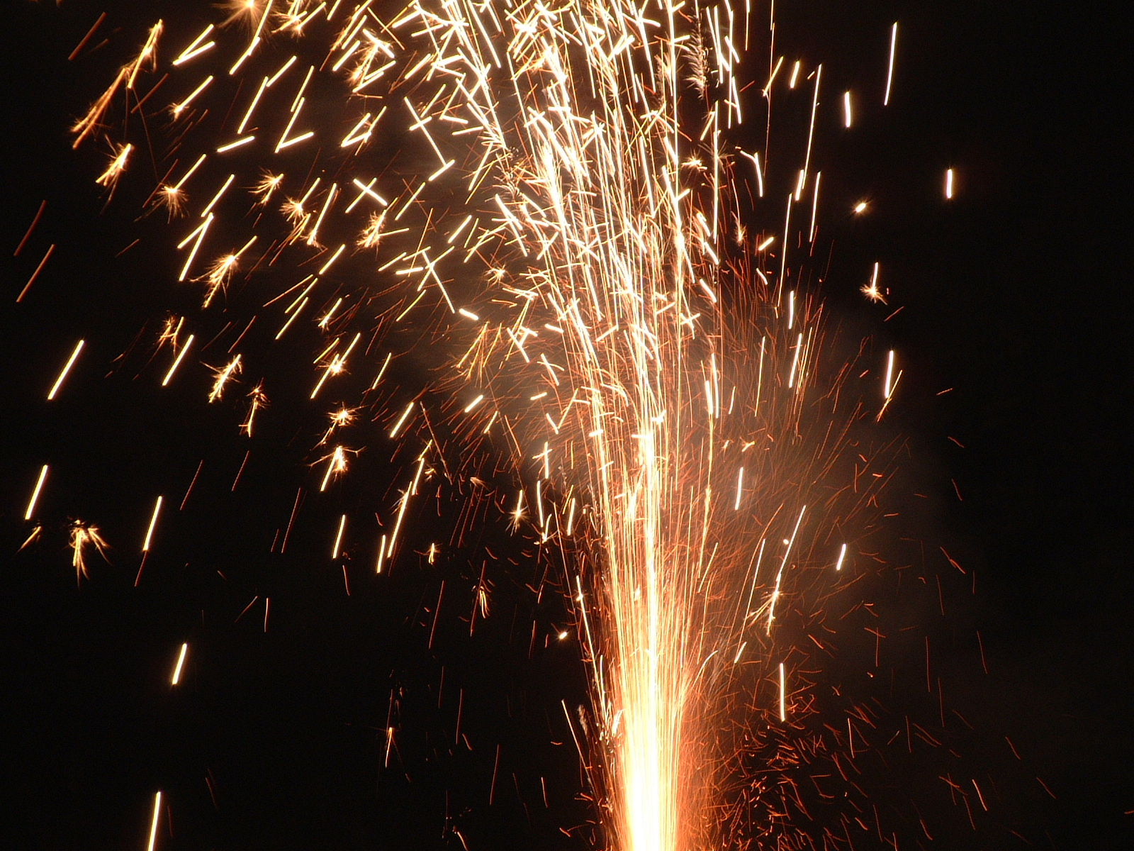 A Roman Candle set off on Bonfire Night